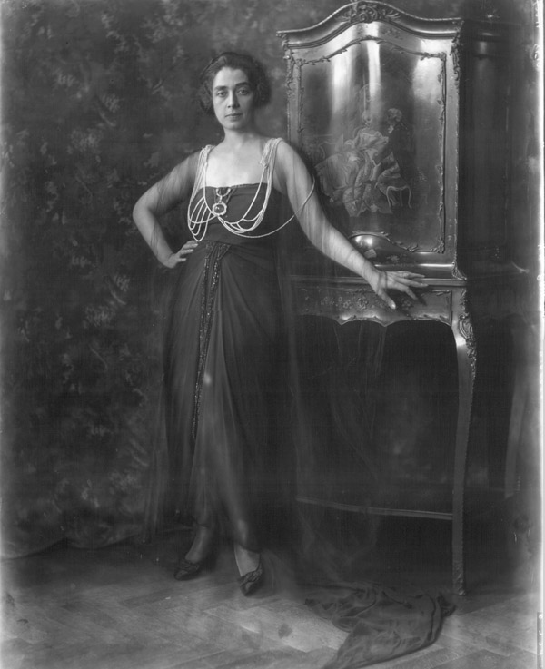 Princess Marthe Bibesco, née Marthe Lucie Lahovary (1886-1973), photographed on 9 July 1920.